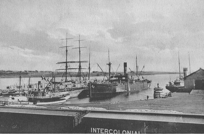 Postcard showing wharf and Intercolonial rail cars at Pictou NS